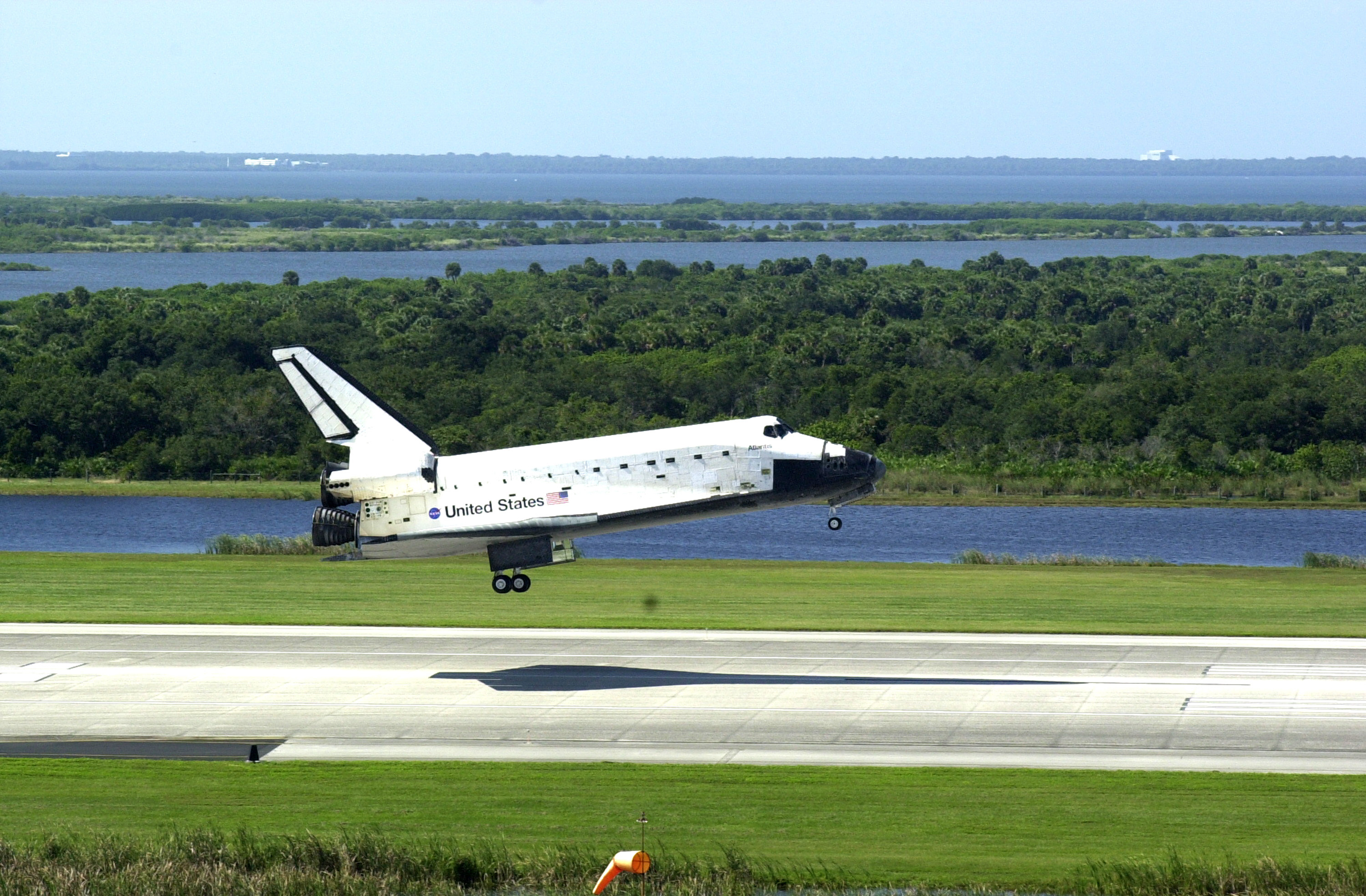 Space Shuttle Atlantis casts a needle-shaped shadow as it drops to the runway at the Shuttle Landing Facility, completing the 4.5-million-mile journey to the International Space Station. Main gear touchdown occurred at 11:43:40 a.m. EDT; nose gear touchdown at 11:43:48 a.m.; and wheel stop at 11:44:35 a.m. Mission elapsed time was 10:19:58:44. Mission STS-112 expanded the size of the Station with the addition of the S1 truss segment. The returning crew of Atlantis are Commander Jeffrey Ashby, Pilot Pamela Melroy, and Mission Specialists David Wolf, Piers Sellers, Sandra Magnus and Fyodor Yurchikhin. This landing is the 60th at KSC in the history of the Shuttle program.